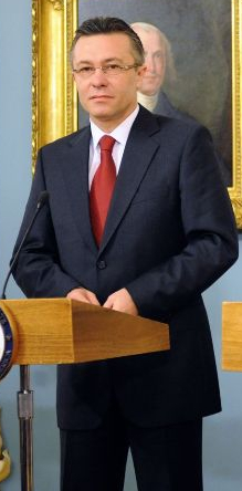 Romanian Foreign Minister Cristian Diaconescu at a meeting with US Secretary of State Hillary Clinton, in the Treaty Room